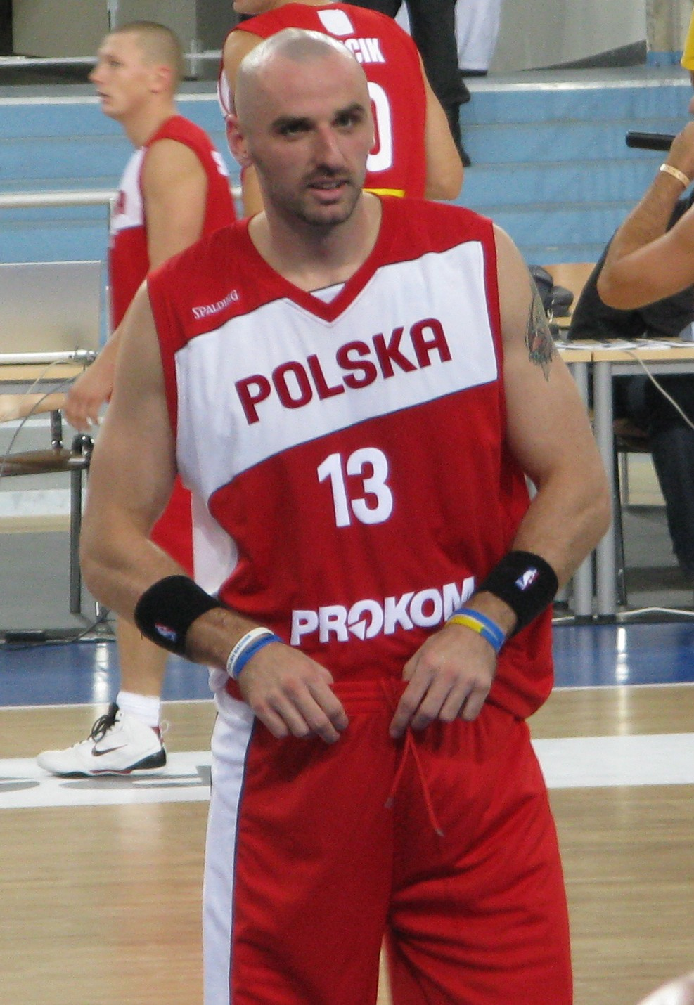 Marcin Gortat at friendly match Poland-Croatia